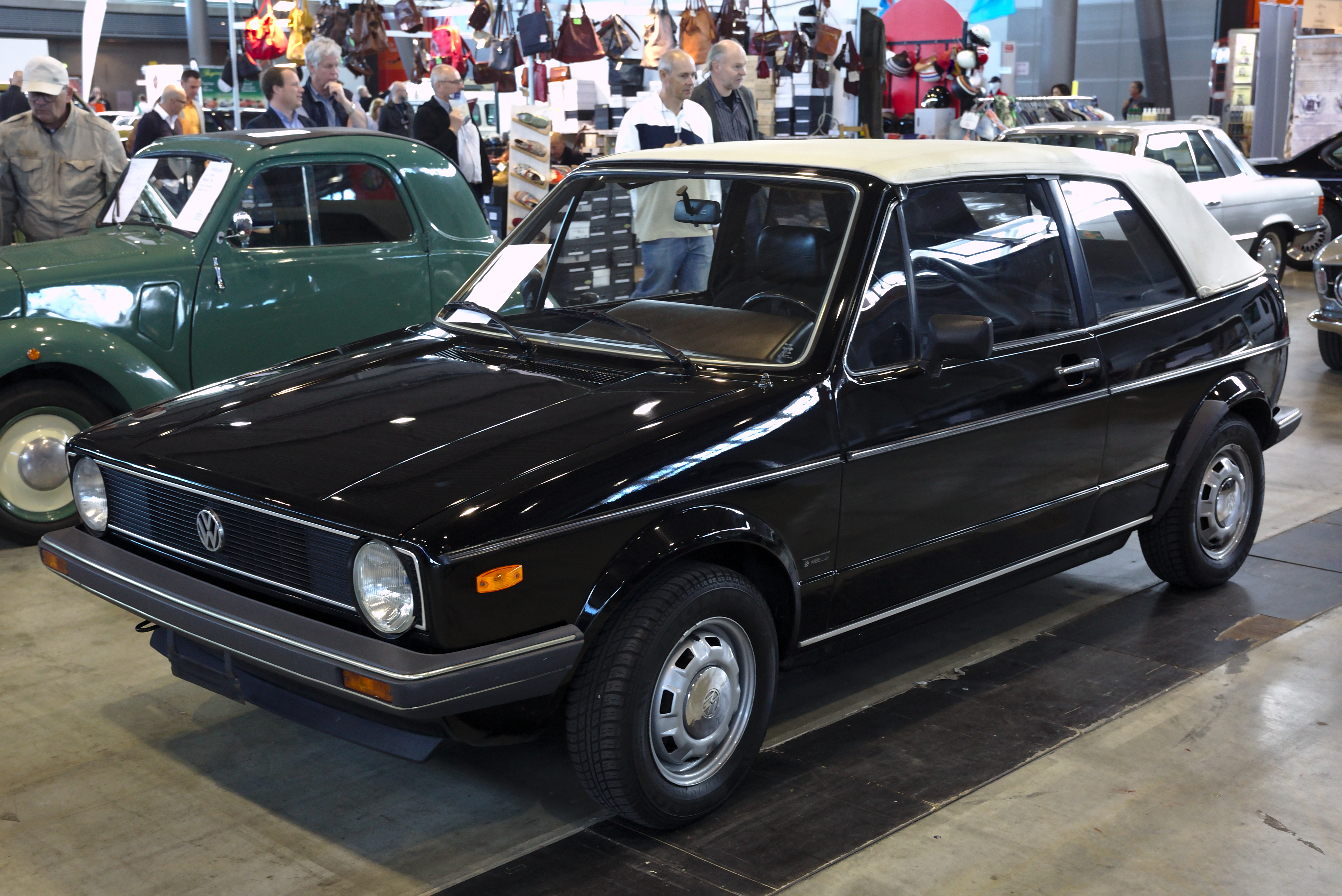 Volkswagen Golf I Cabrio at Retro Classics 2019